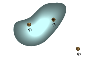 O fluxo elétrico através da superfície fechada